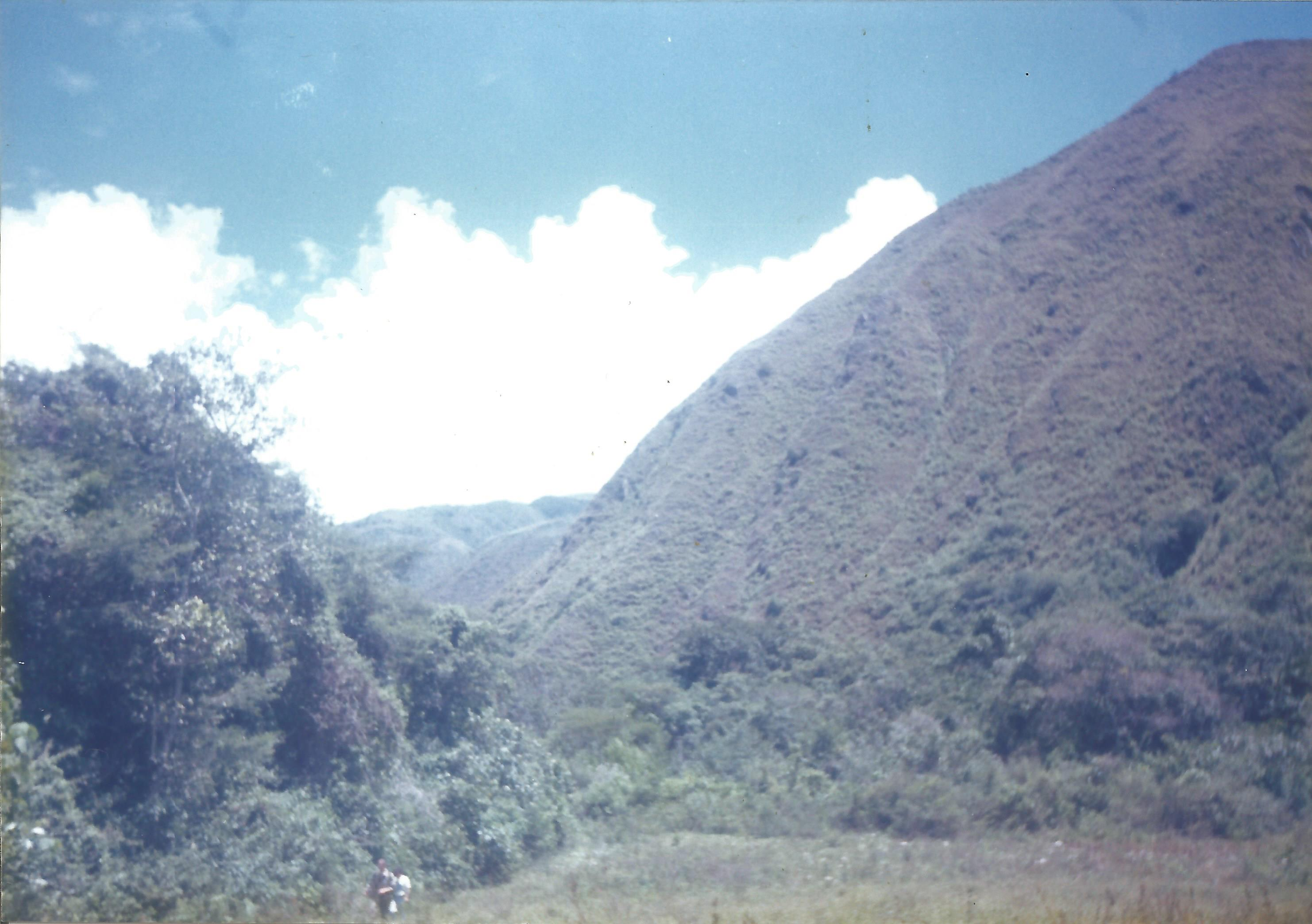 Area of occurrence of wild cherimoyas (Annona cherimola Mill.) in Vilcabamba, Ecuador